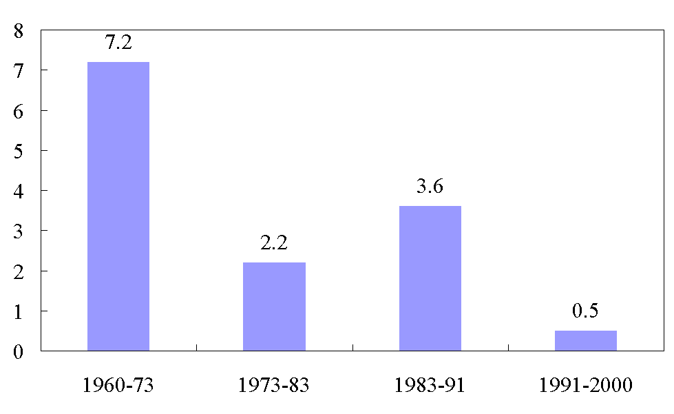 Japan's annual real GDP growth (in average). The source of original data is Hayashi, Fumio and Edward C. Prescott (2002), "The 1990s in Japan: A Lost Decade," Review of Economic Dynamics, vol. 5(1), pp. 206-235.